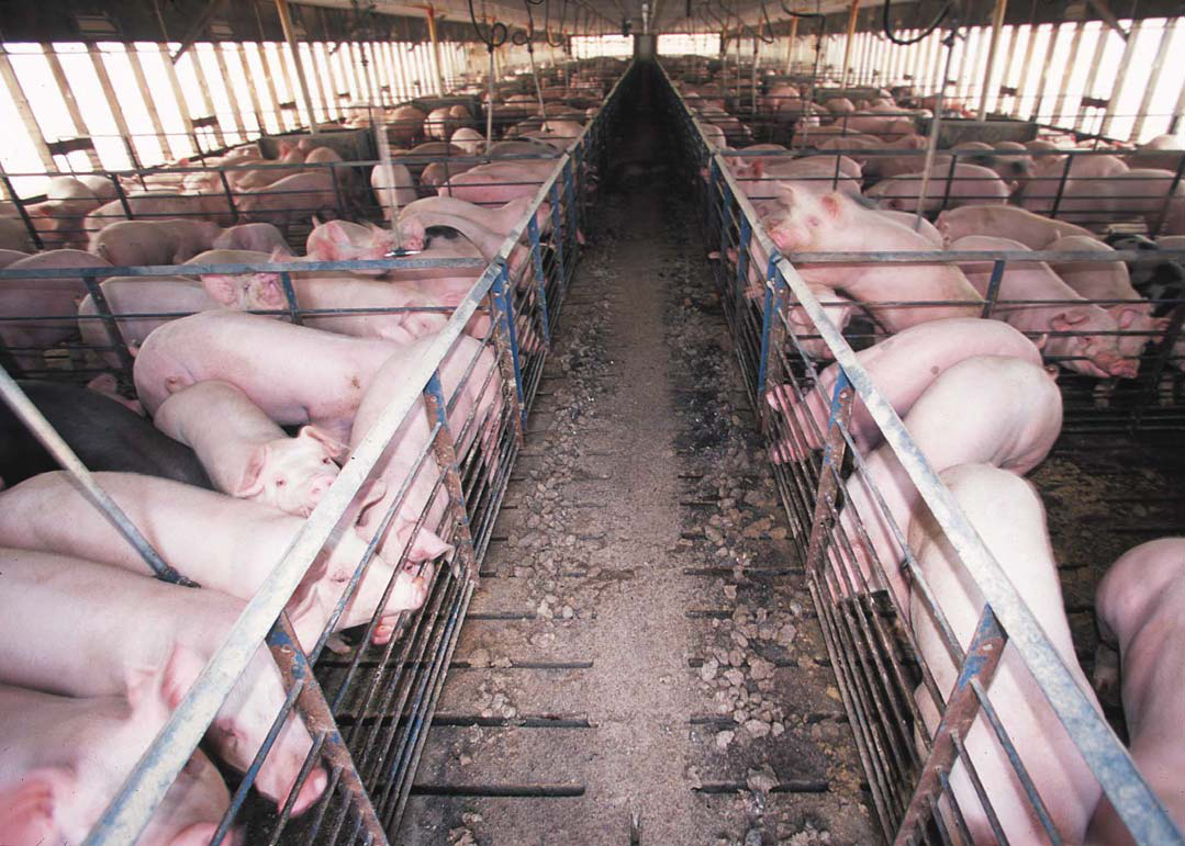 Hog confinement barn interior, slatted floor